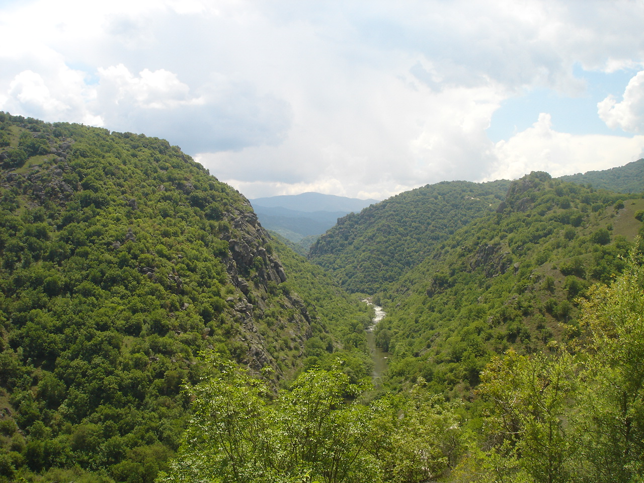 Skochivir Gorge in Mariovo, Macedonia